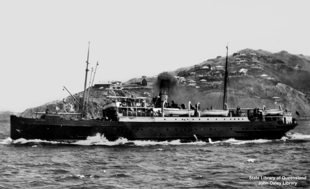 11,607 GRT passenger steamship Arahura